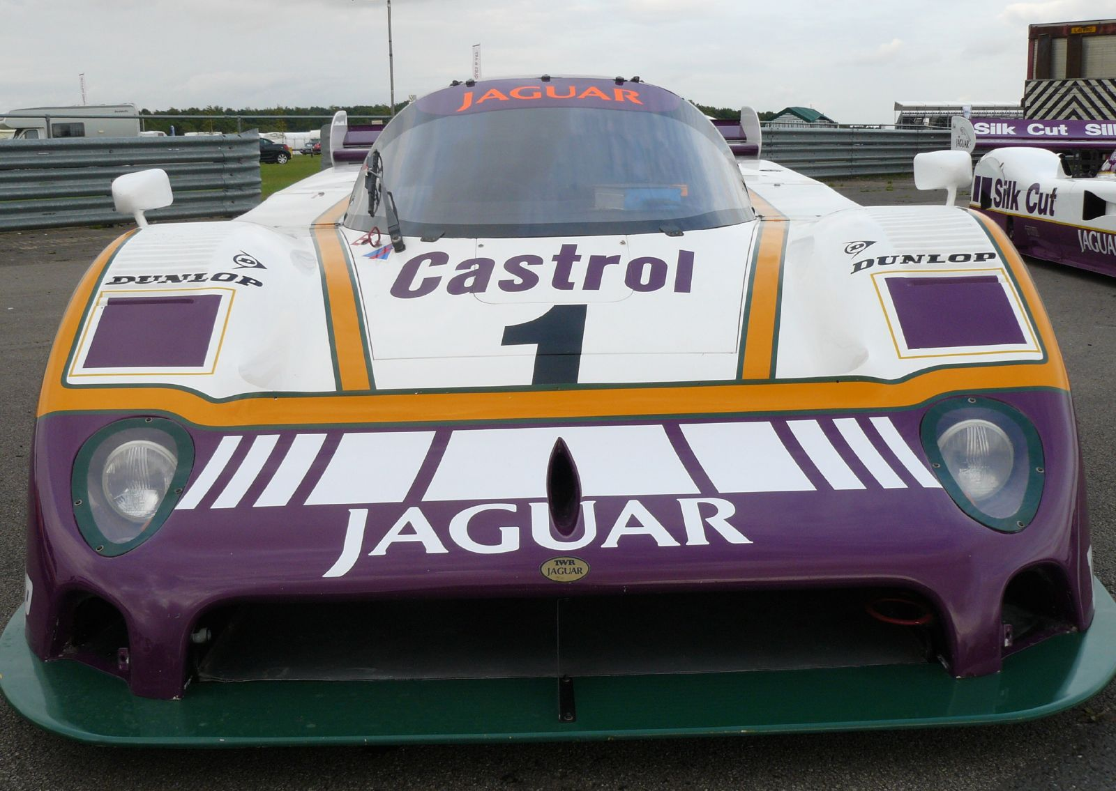 A Jaguar XJR-11 at the Silverstone Classic